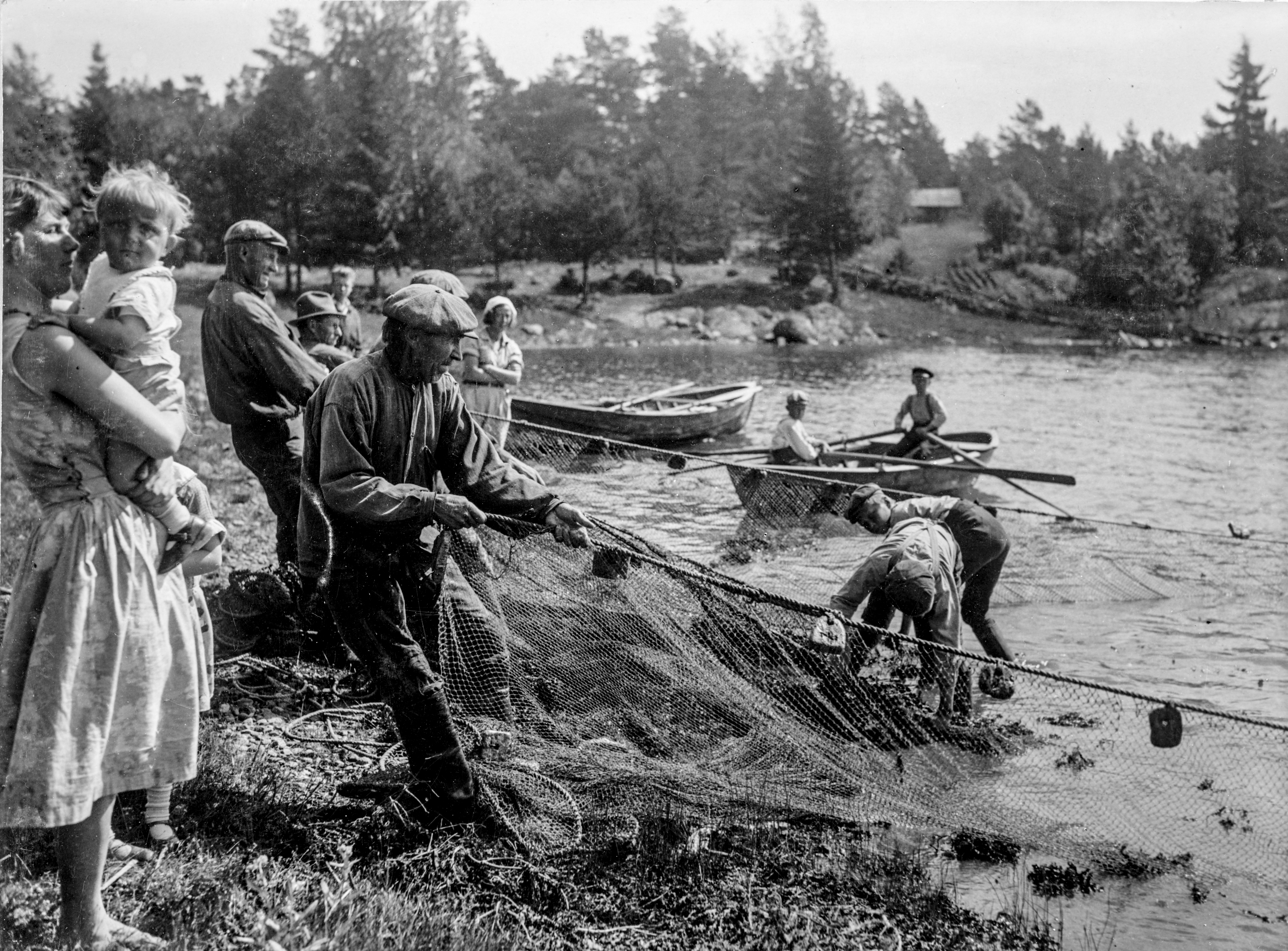 1930-luku / 30's Suur-Pellinki, Porvoon saaristo / Porvoo archipelago silver gelatin print / hopeagelatiinivedos The Finnish Museum of Photography / Suomen valokuvataiteen museo Contact / Ota yhteyttä